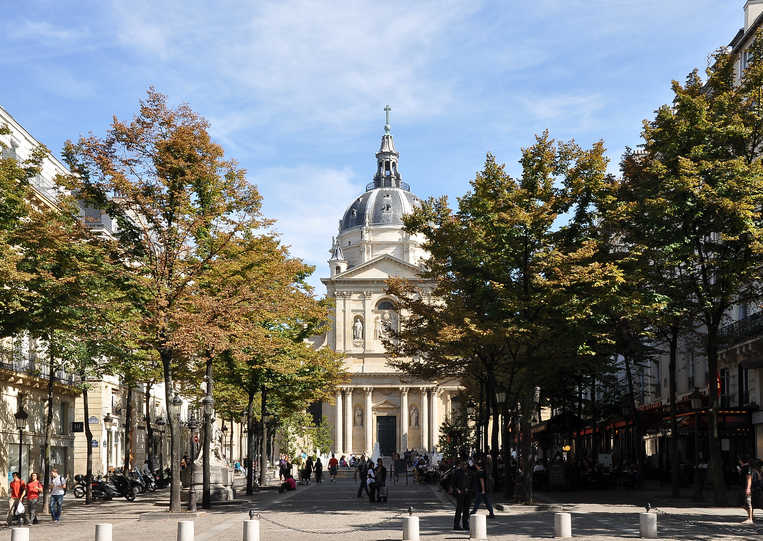 Saint Ursula Chapel of Sorbonne in the 5th arrondissement of Paris, France.